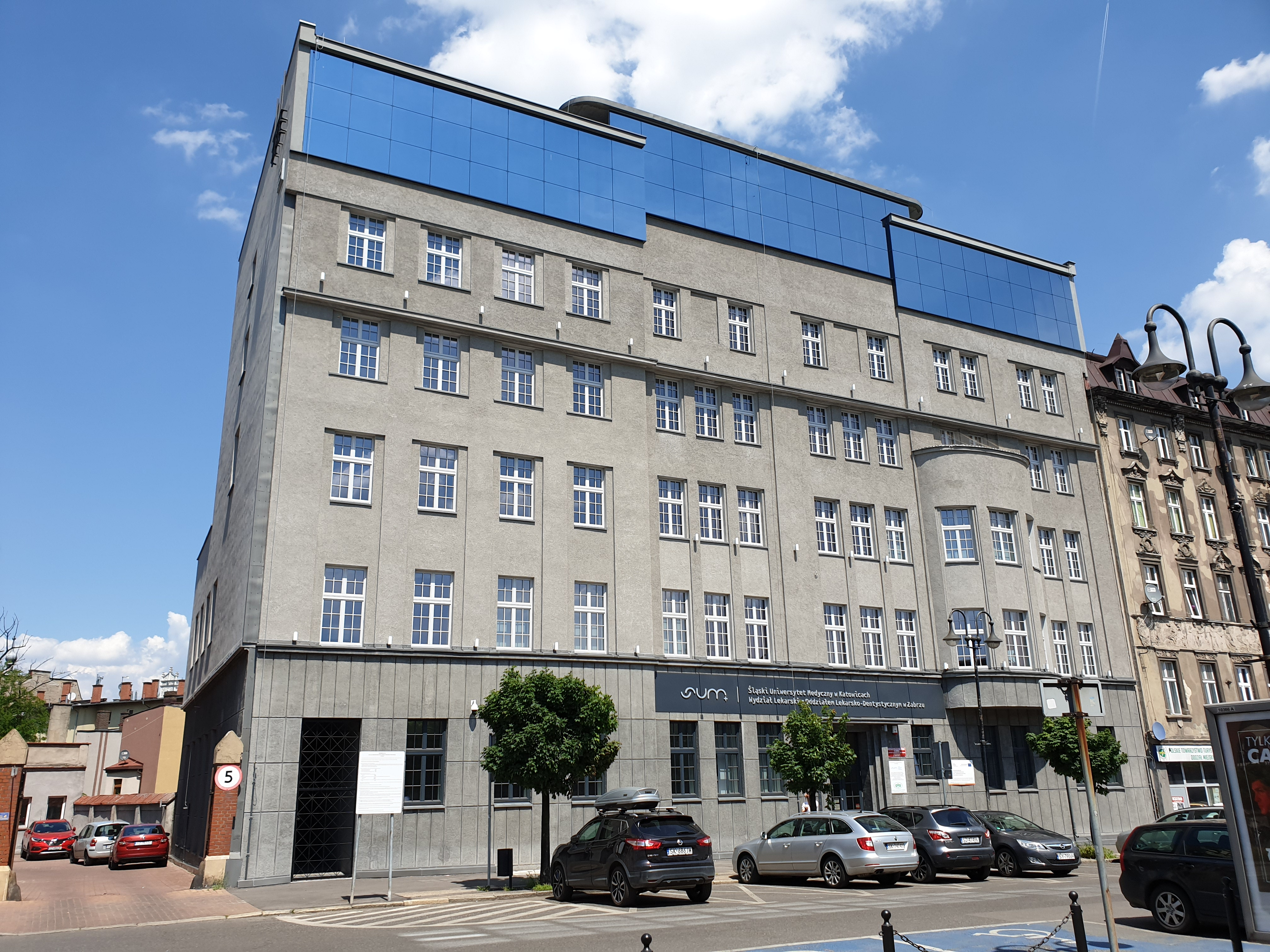 Medical University of Silesia, building of the Department of Medicine and Dentistry, Dworcowy Square, Zabrze, Poland, June 2019